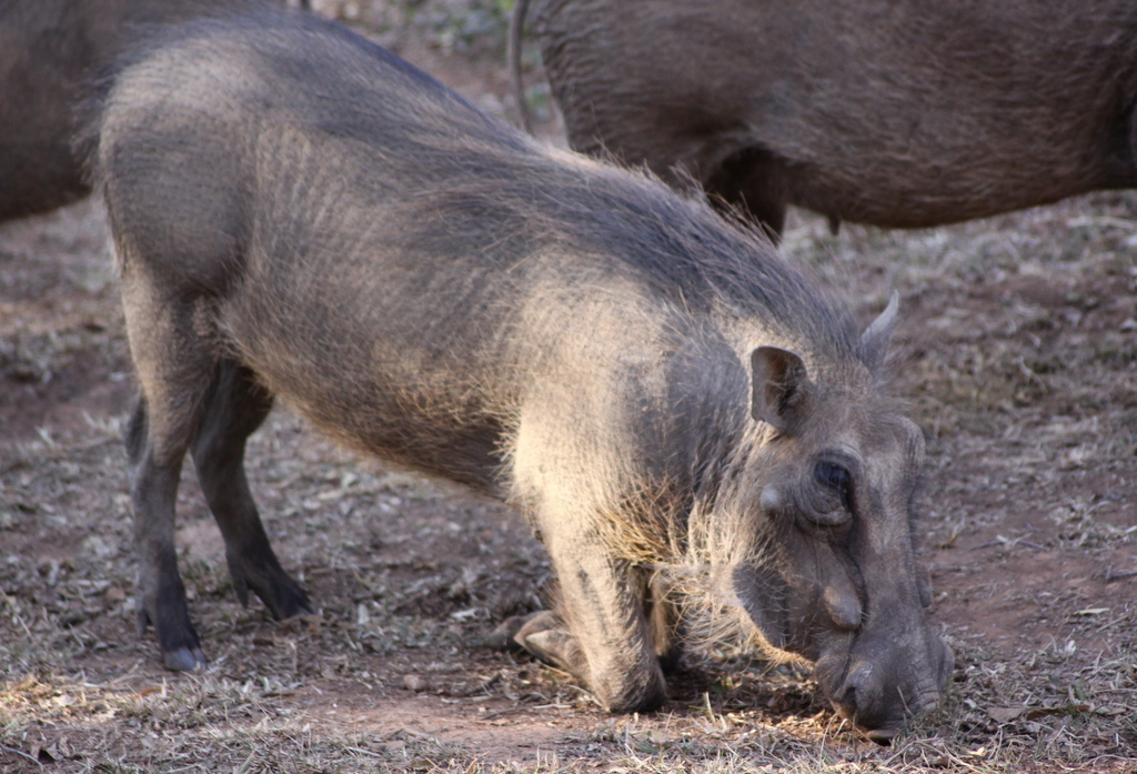 Phacochoerus africanus